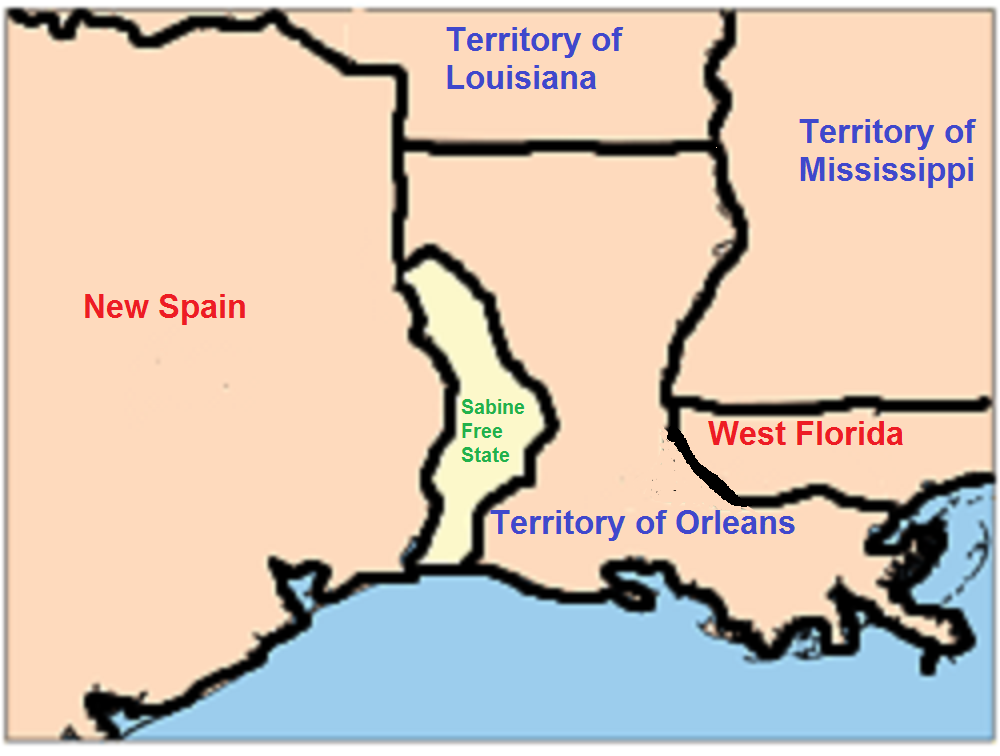 This is a map of the historical Territory of Orleans that was derived from the Wikipedia public domain file: File:Sabinefreestate.png